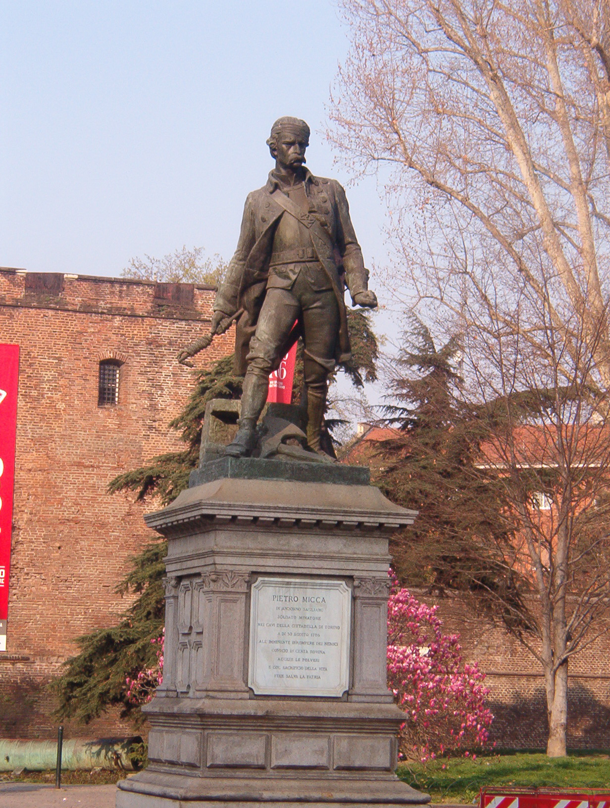 Turin, Italy. Monument to Pietro Micca, by Giuseppe Cassano". 1860s. Today.